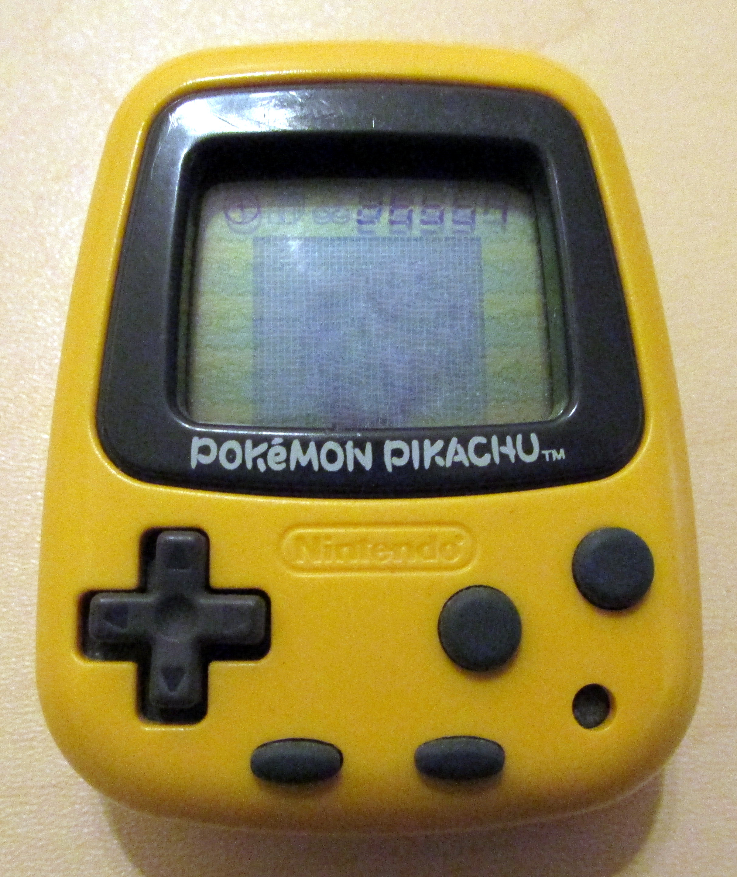 A Pokémon Pikachu digital pet toy.